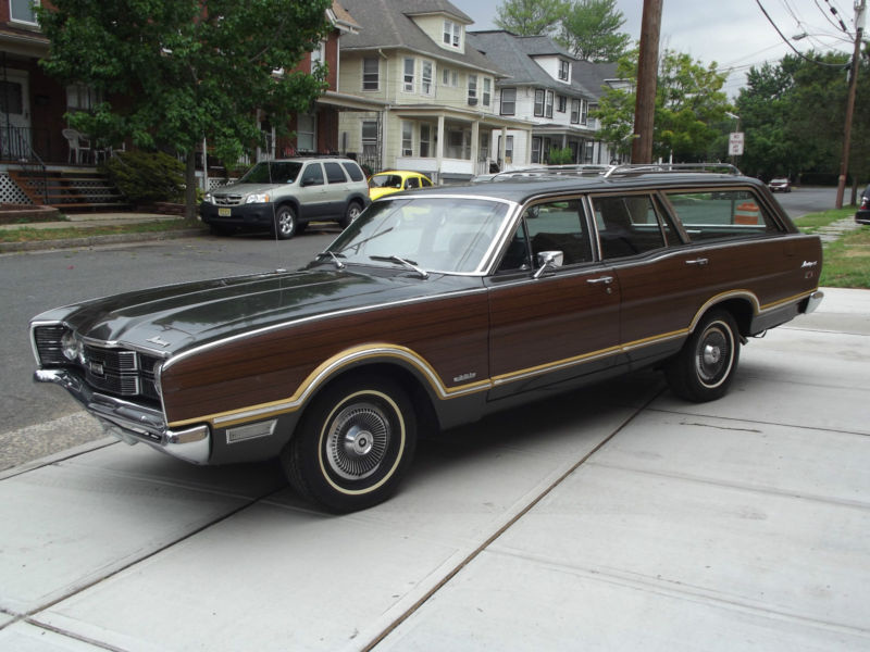 A front 3/4 view of a 1969 Mercury Montego MX Villager station wagon